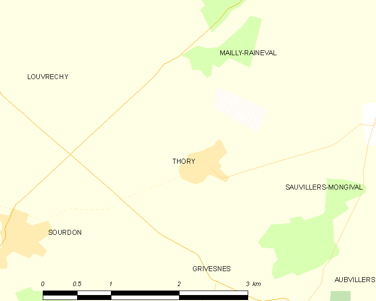 Map of French municipality Thory